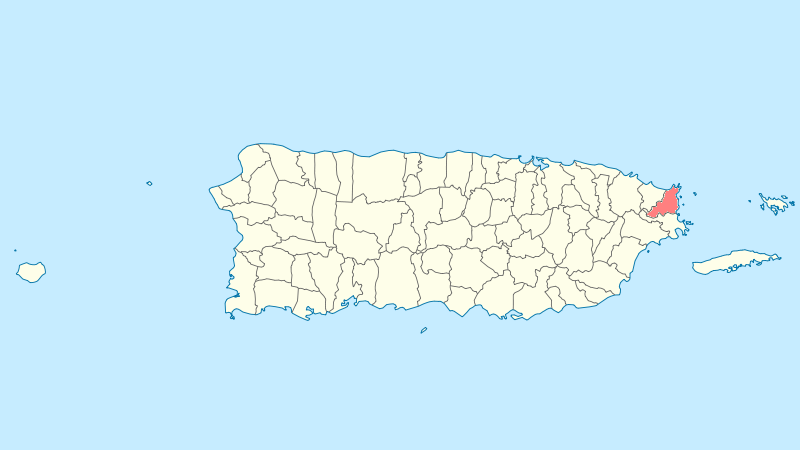 Municipal locator of Puerto Rico